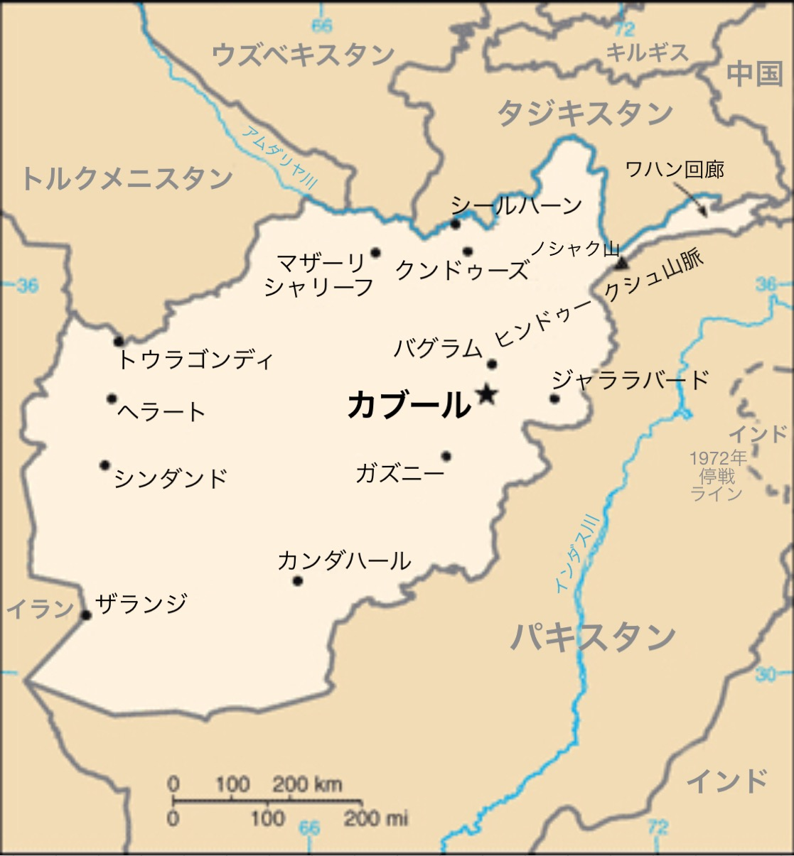 Map of Afghanistan in Japanese (from CIA World Factbook)